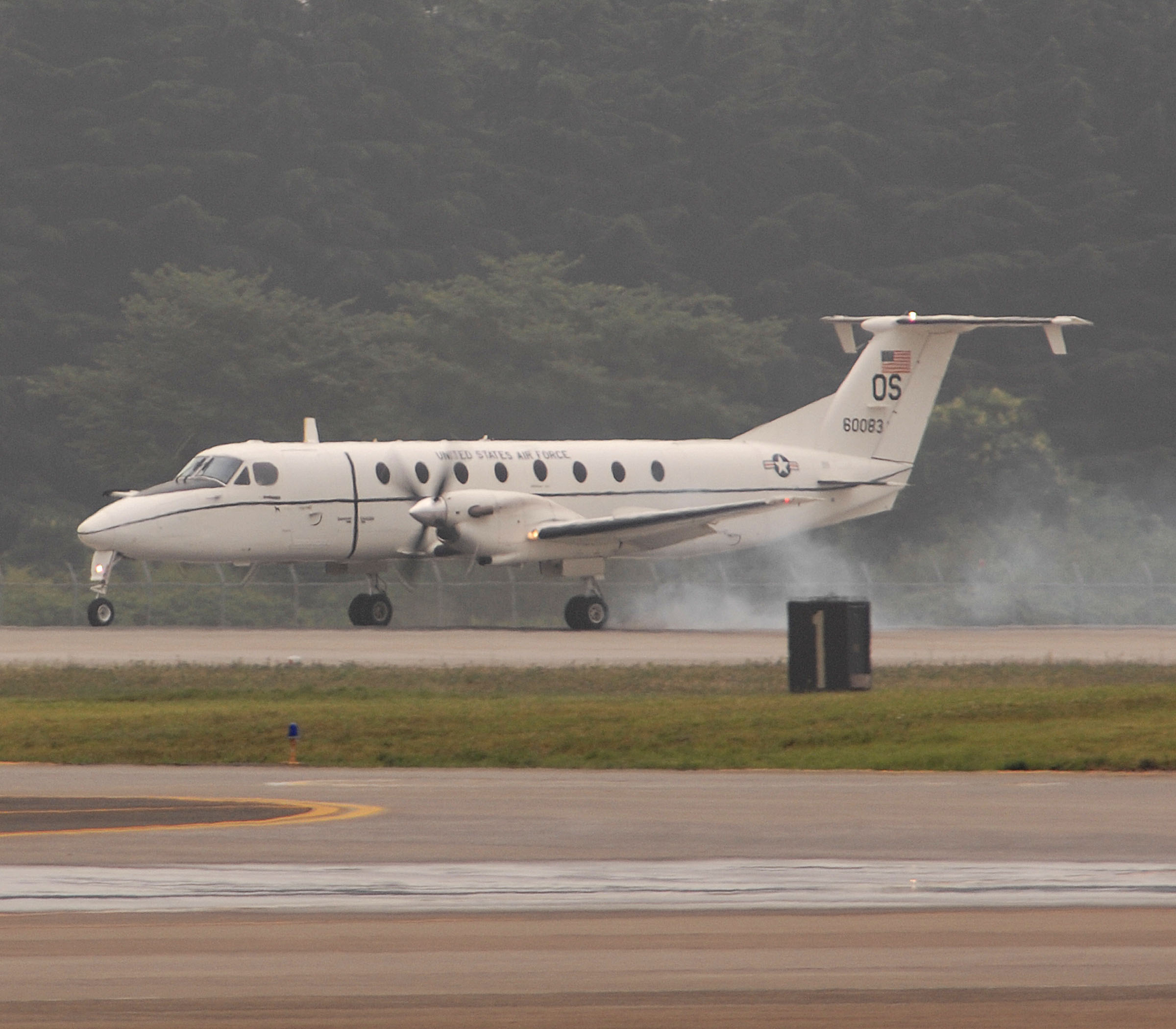 The first U.S. Air Force Beech C-12J Huron (s/n 86-0083) of the 459th Airlift Squadron, 374th Airlift Wing lands at Yokota Air Base, Japan, on 29 June 2007. The C-12 replaced the Gulfstream C-21 Learjet. The C-12J still wears the "OS" tail code from the deactivated 55th Airlift Wing at Osan Air Base, South Korea.